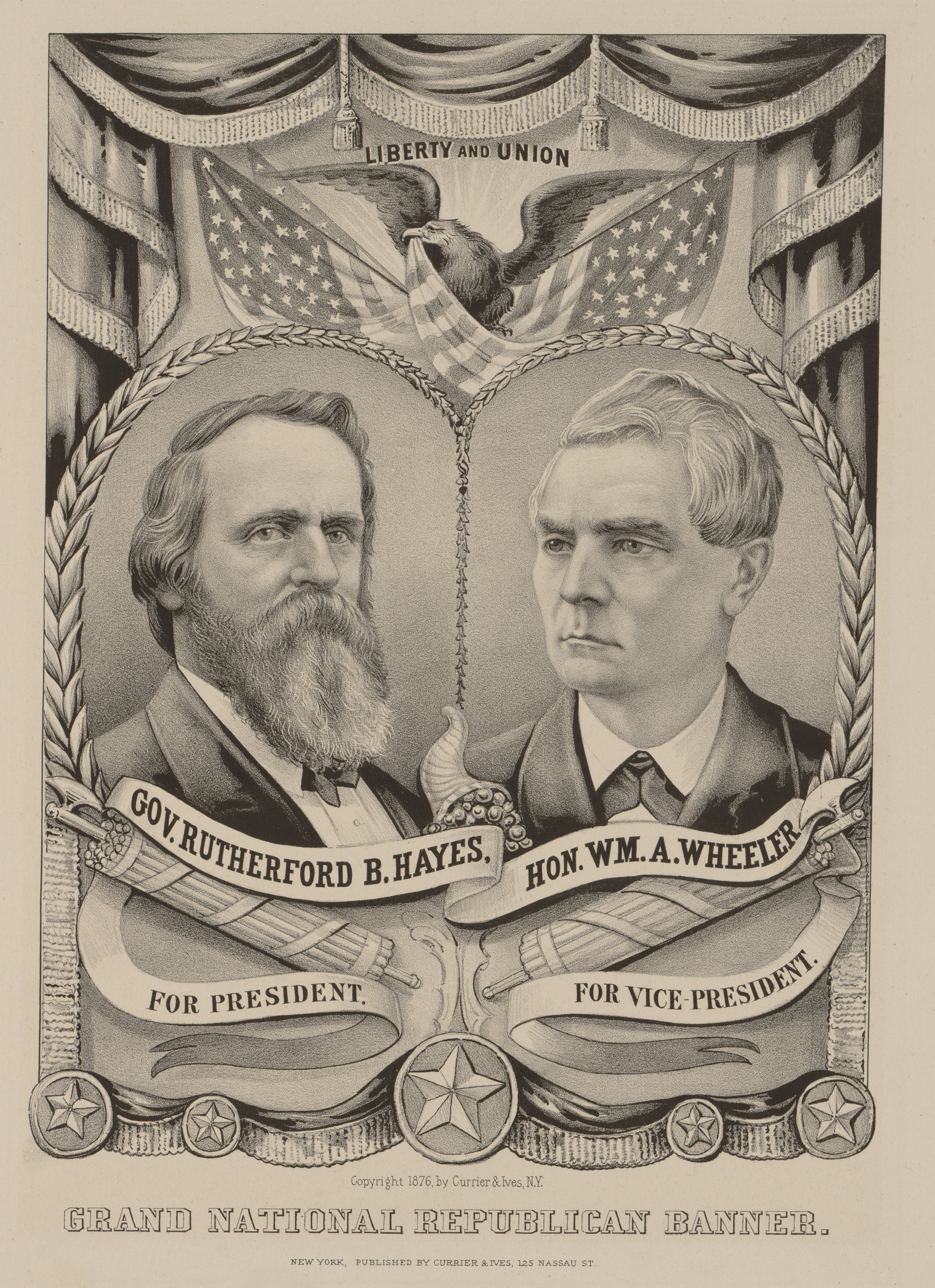 Print shows a campaign banner for the 1876 Republican presidential ticket. Bust portraits of Ohio governor Rutherford B. Hayes and William A. Wheeler are framed with laurel wreaths. Above them hang swags of drapery with tassels. A bald eagle rests on the top of the portraits, flanked by four American flags, and holds part of one of the flags in his beak. Above him the words "Liberty and Union" appear in an aureole of light. Between the portraits is a cornucopia, and below each of them a bundle of fasces. A similar banner was produced by Currier & Ives for the Democratic ticket the same year. (See "Grand National Democratic Banner," no. 1876-3.)